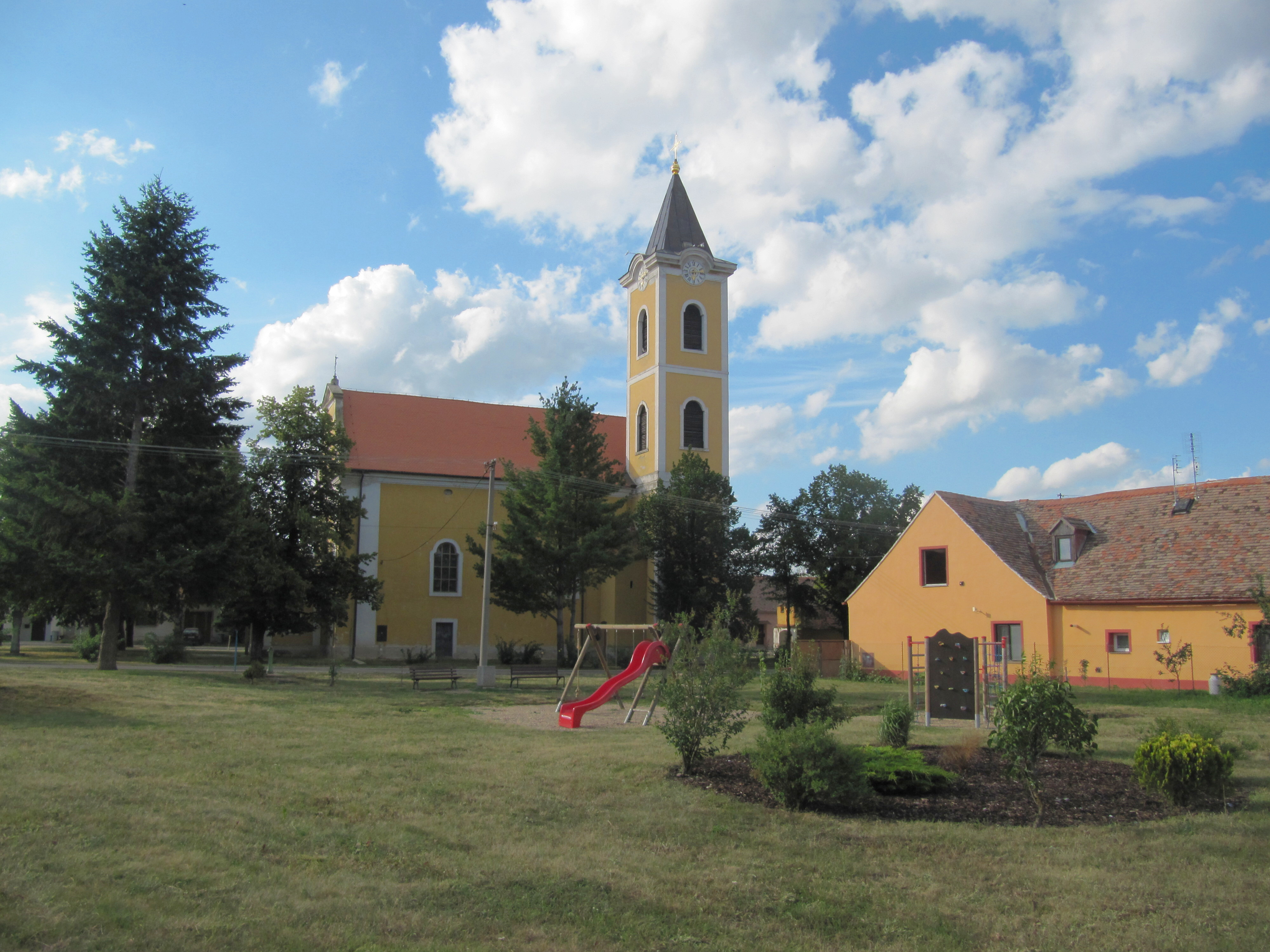 Strachotice in Znojmo District, Czech Republic. Church of St. George from the 18th century.